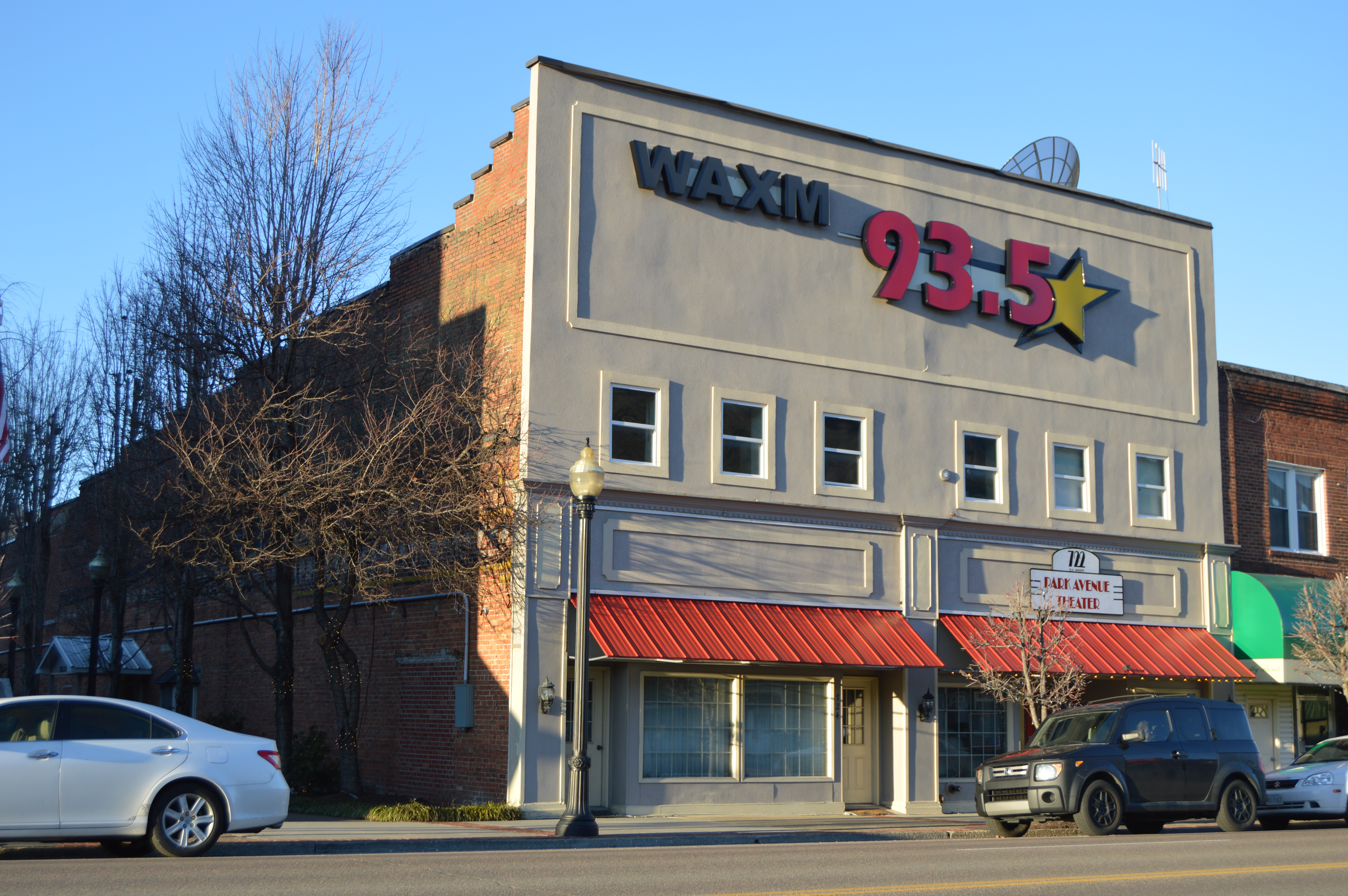 Front of the offices of WAXM Radio, located at 724 Park Avenue in Norton, Virginia, United States.